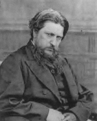 British painter Ford Madox Brown (1821-1893)